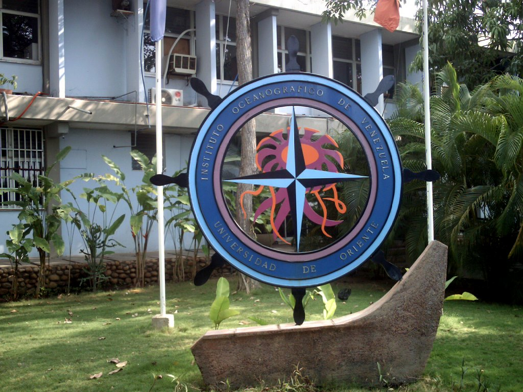 UDO Sure